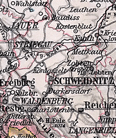 Detail from a map of Silesia.